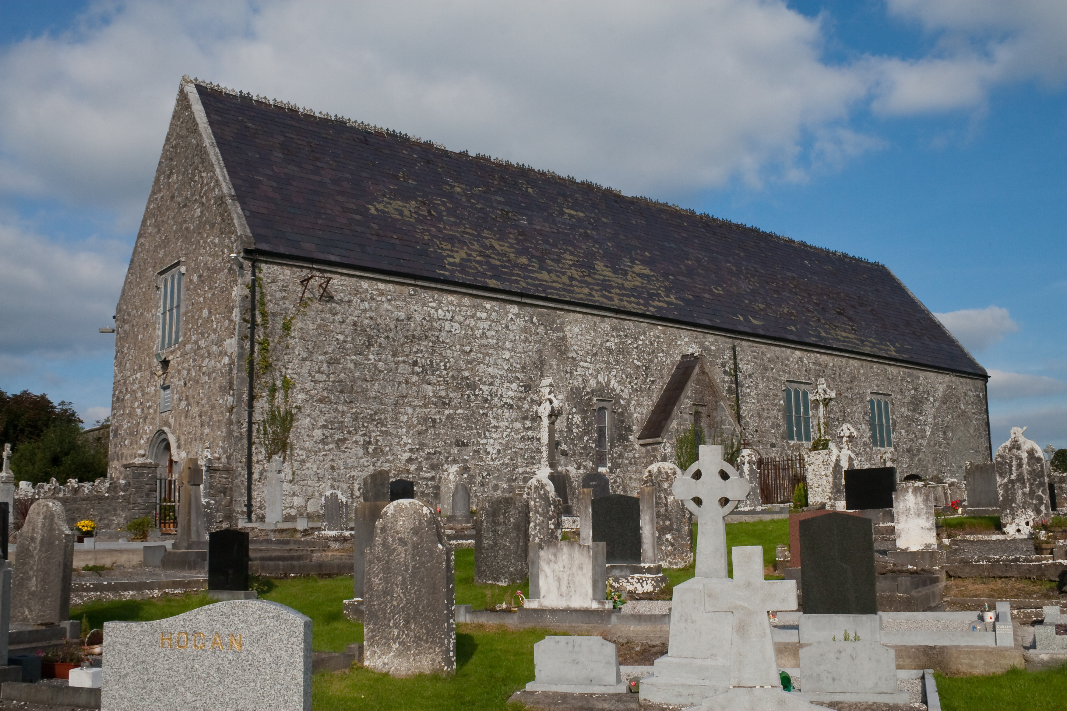 Meelick Friary, County Galway, Ireland South view of Meelick Friary.